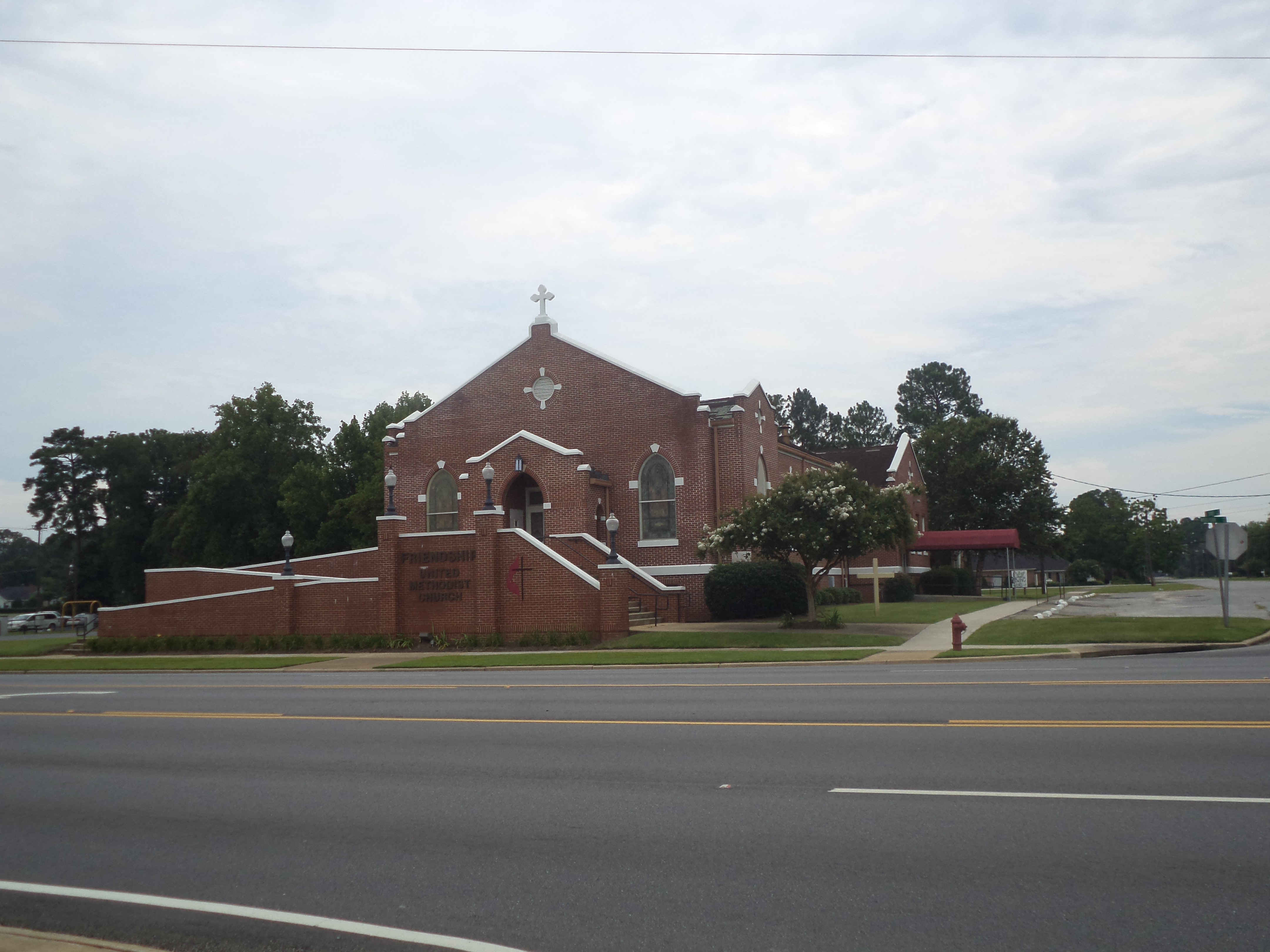 Friendship United Methodist Church, 201 E 3rd St, Donalsonville, Seminole County, Georgia